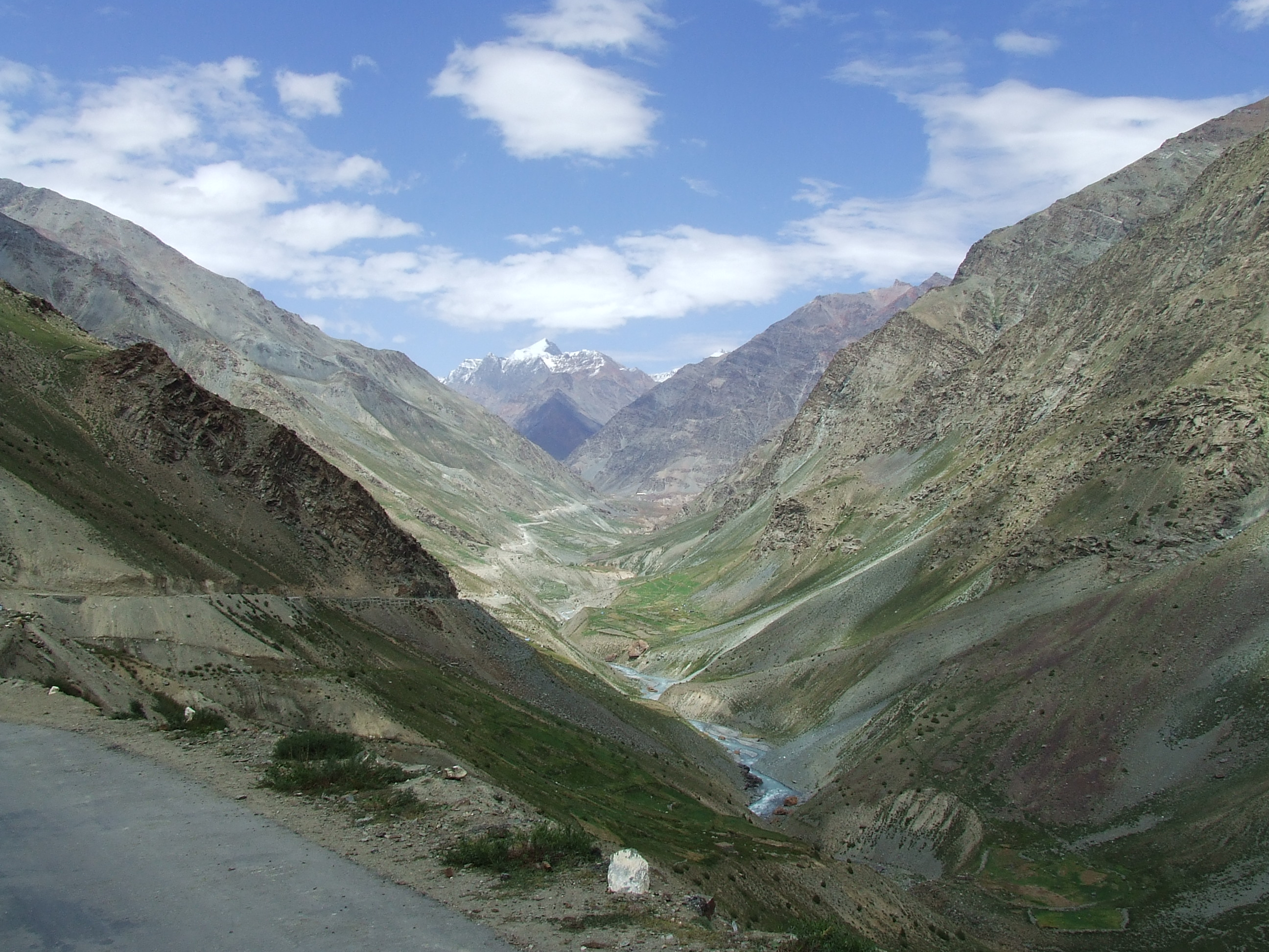 Darcha in the Lahaul region, Lahaul and Spiti, India. * Location : Darcha, Lahaul Date: 09/2006 Credit Source: Photographer's own